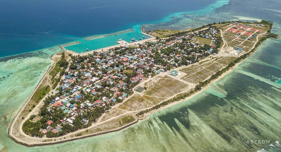 Aerial View of Gadhdhoo